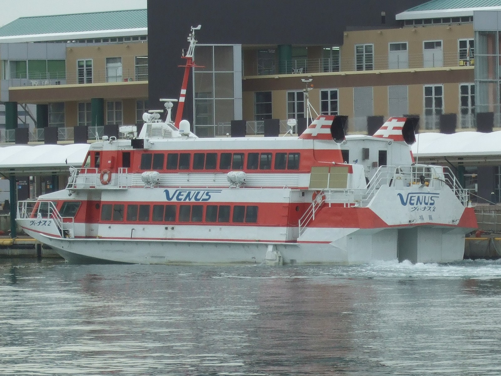 Kyusyu Yusen Jetfoil Venus2